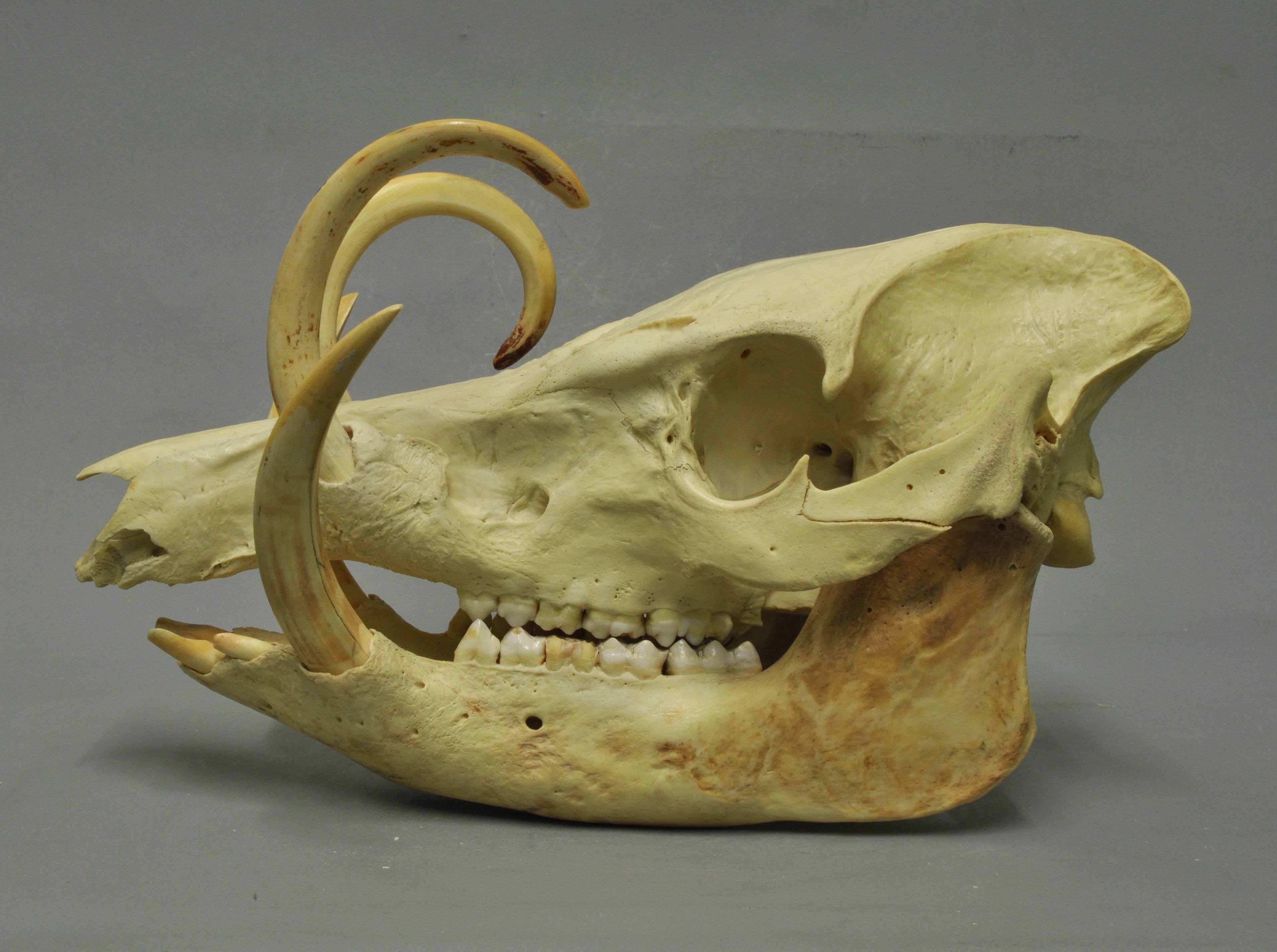 Buru babirusa Babyrousa babyrussa, skull, Coll. Museum Wiesbaden